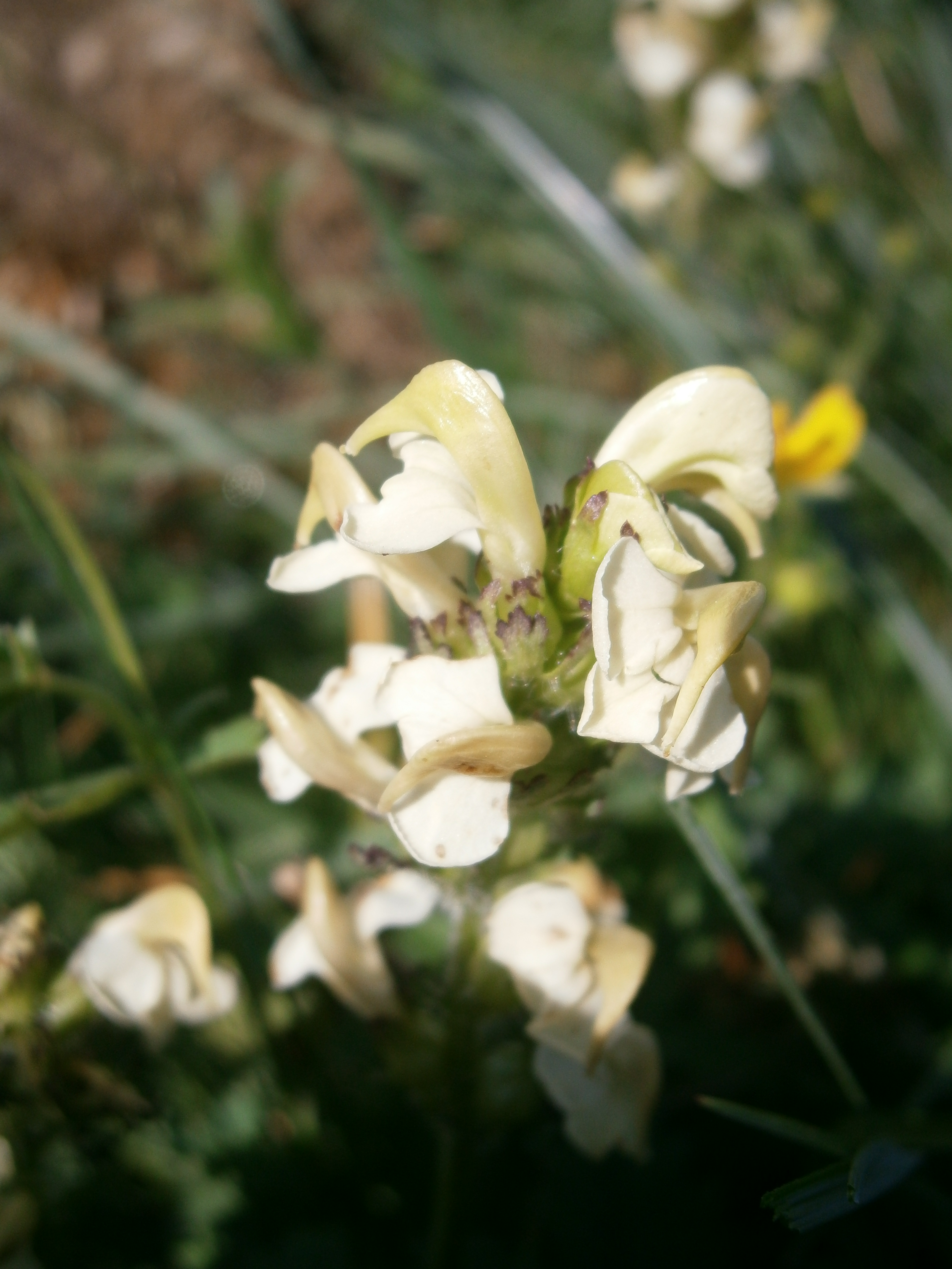 Pedicularis ascendens